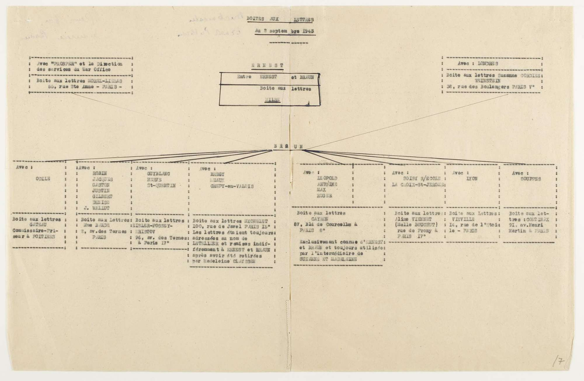 Archival document